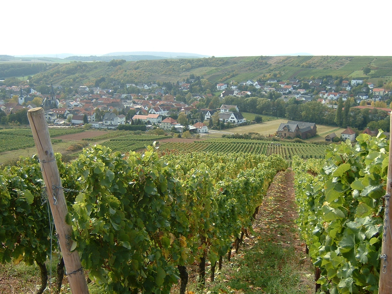 View of Guldental/Nahe (Germany)